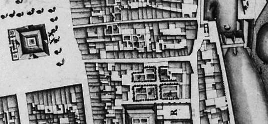 Detail of map of Maastricht by the French engineer Larcher d'Aubencourt (1749). Left: Market square and town hall. Right: Maas river. Middle: Hoenderstraat.